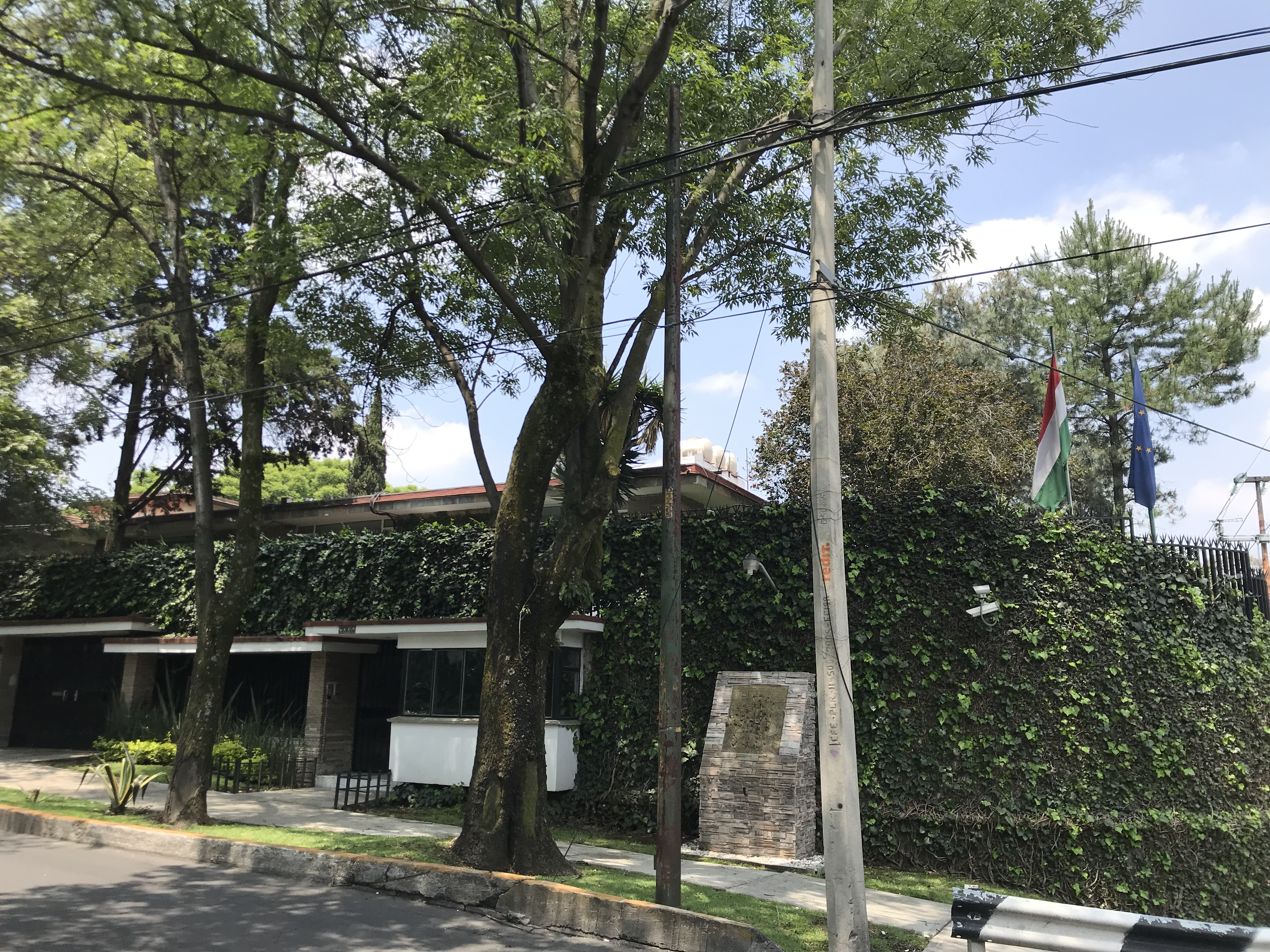 Embassy of Hungary in Mexico City